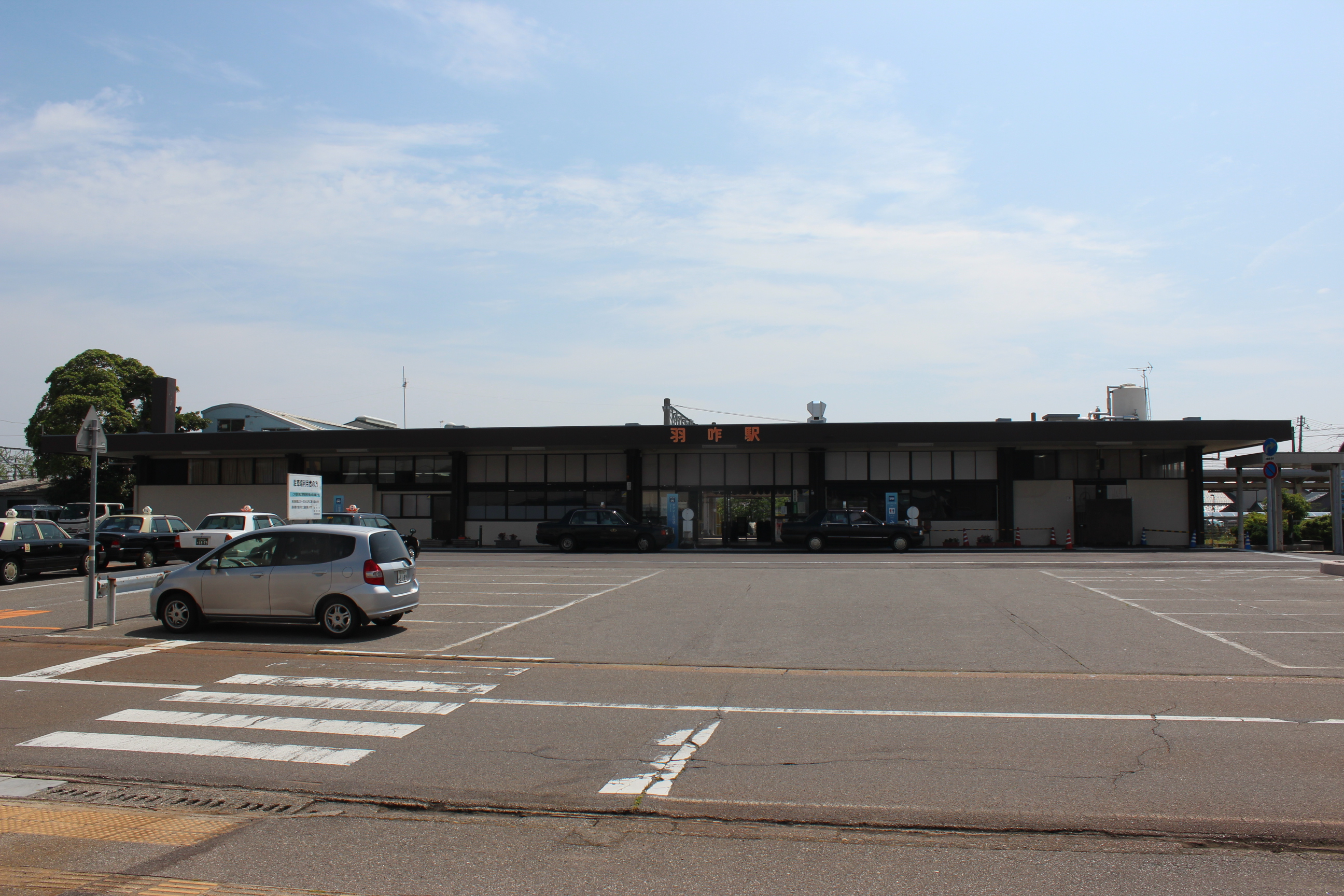 Hakui Station